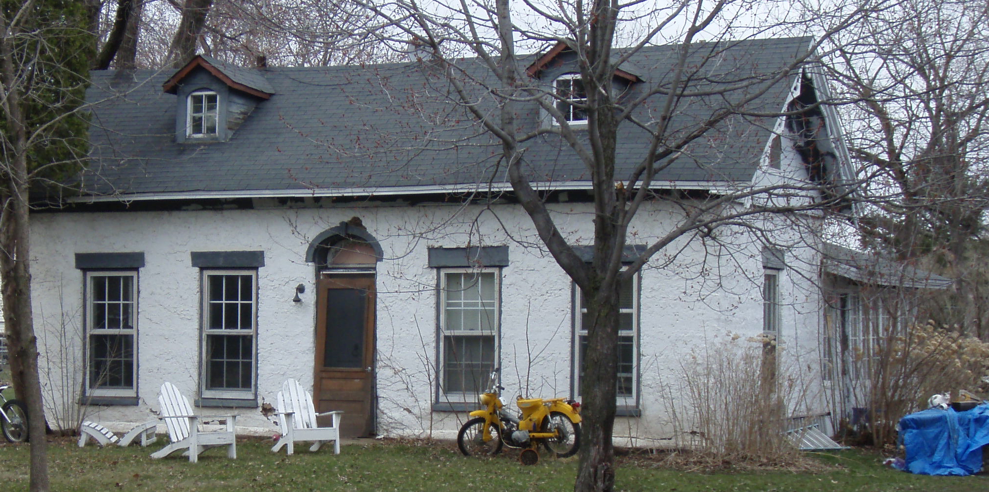 John T. Chyphers House in Lakeland, Minnesota, listed on the National Register of Historic Places.